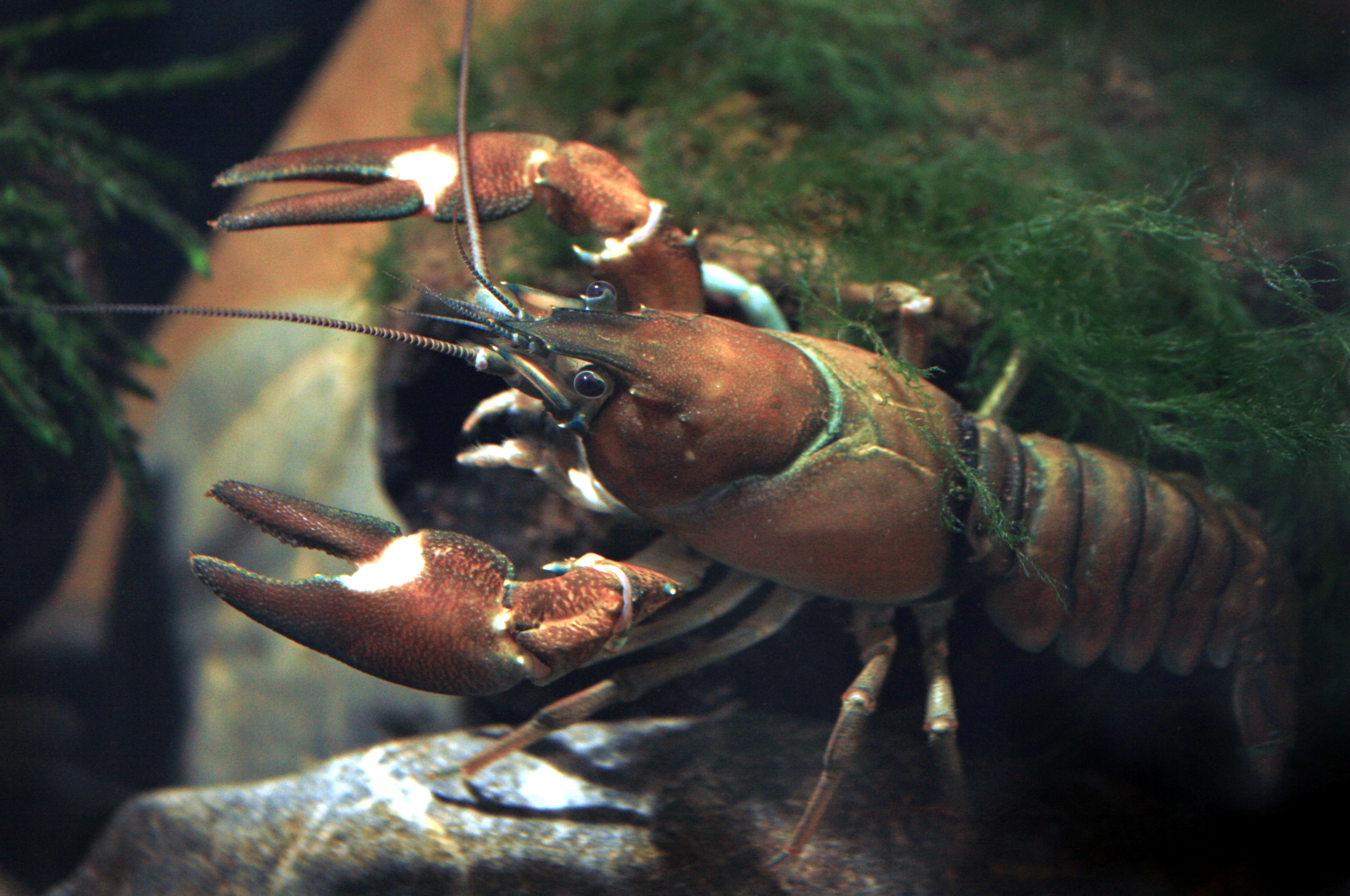 Signal crayfish female captured from the Iller River, southern Germany.